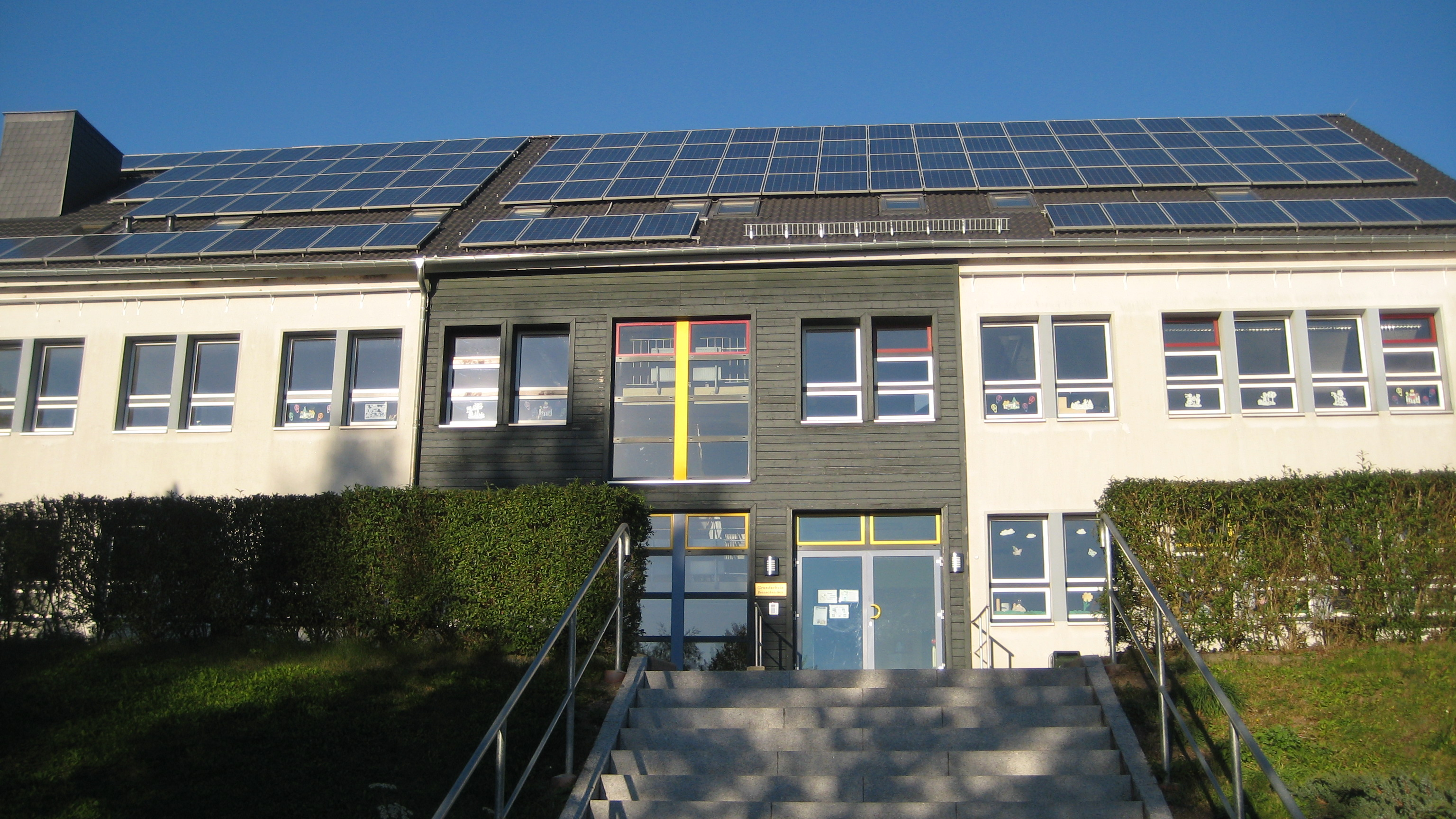 Benneckenstein primary school